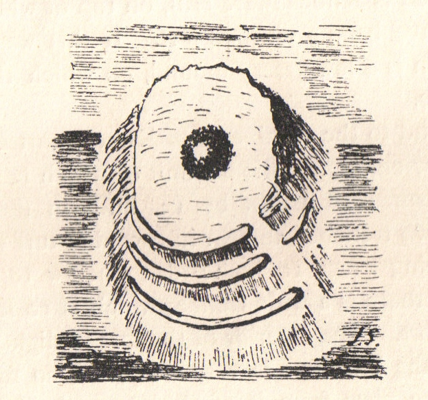 Knock Jargon Fort on the Knockewart Hills, North Ayrshire, Scotland.